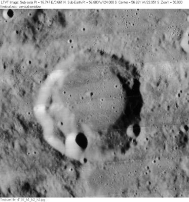 Crater Henry